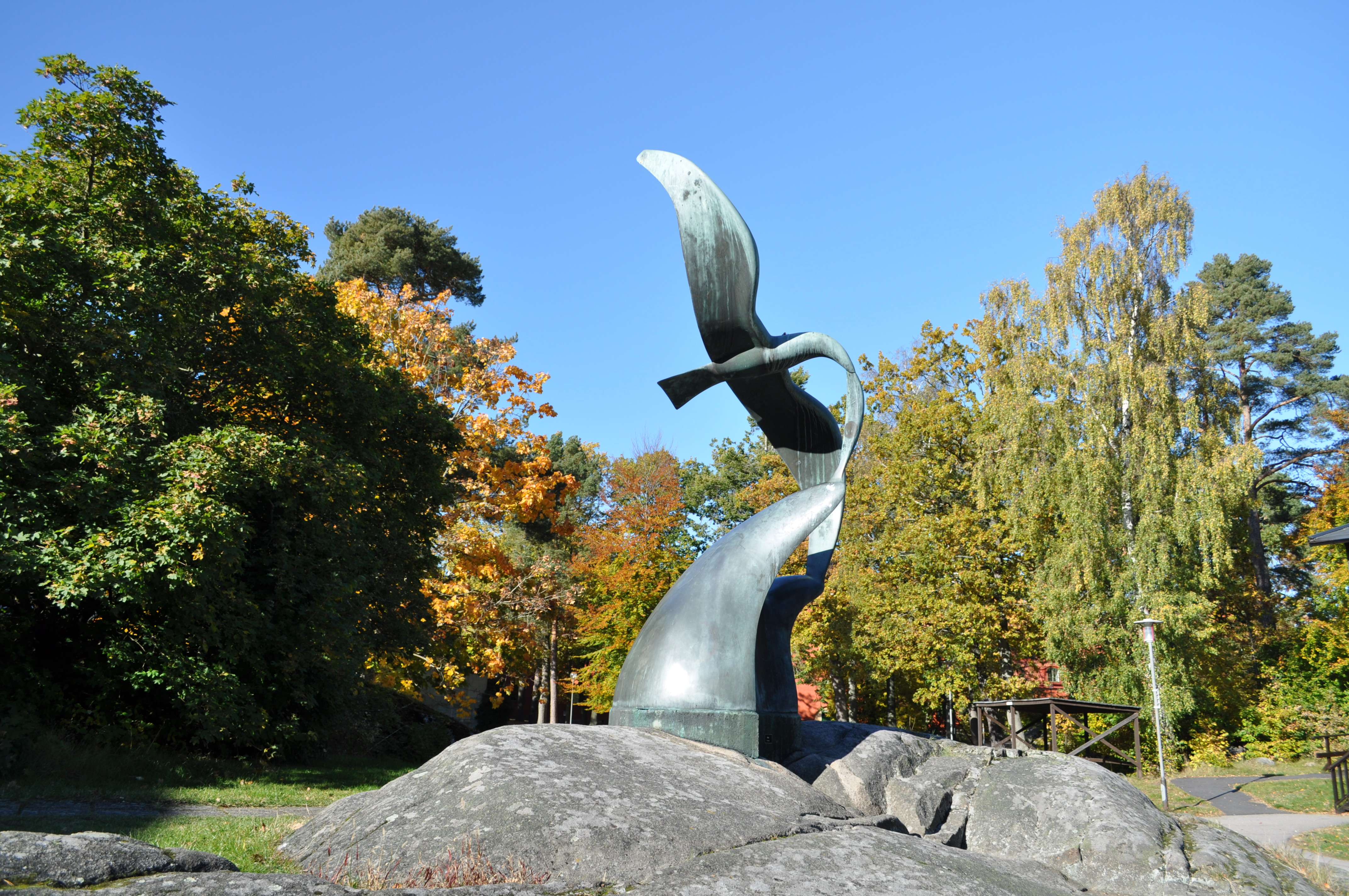 The gull Måsen made Bror Forslund - Väggaskolan Karlshamn.